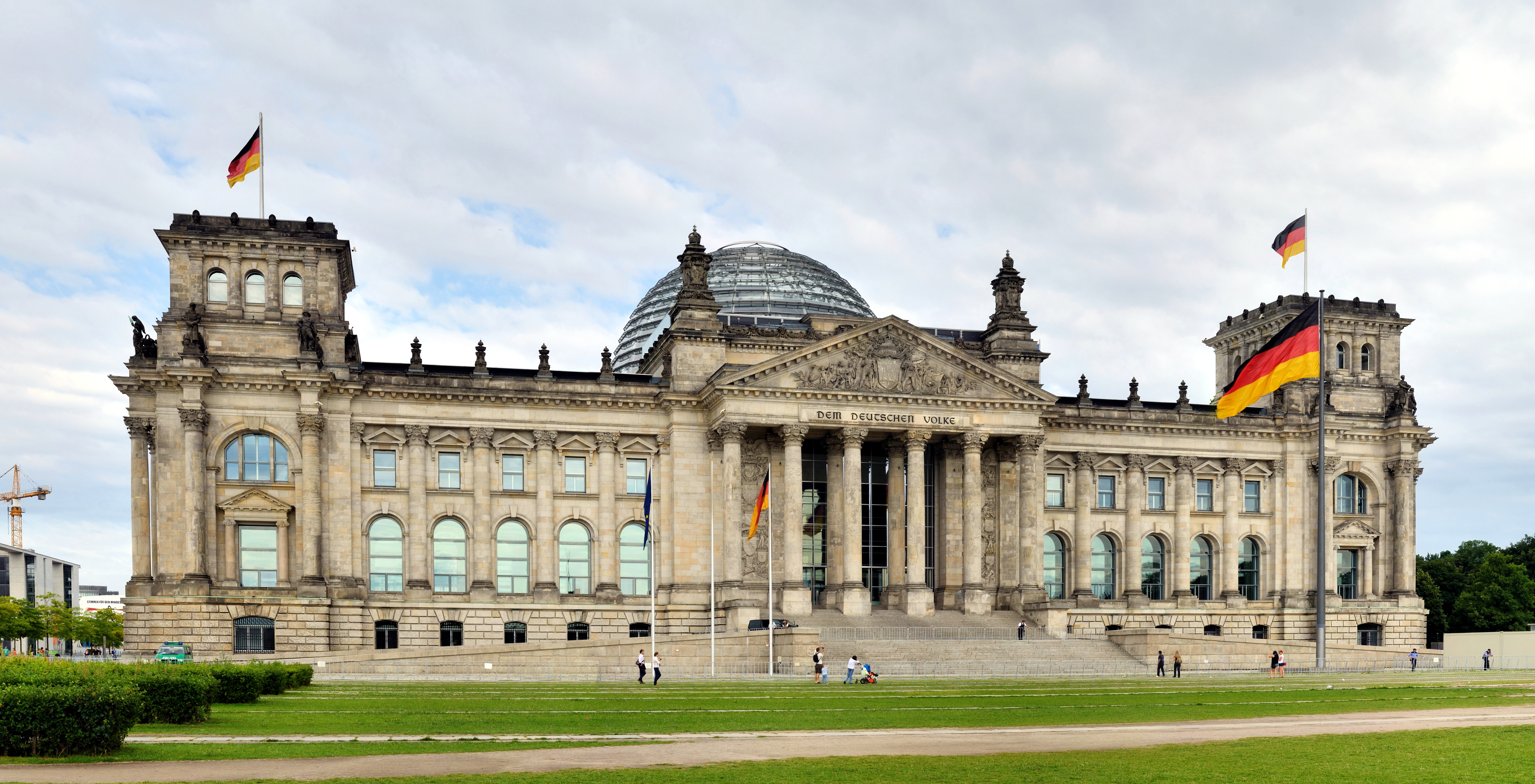 Berlin: Reichstag building